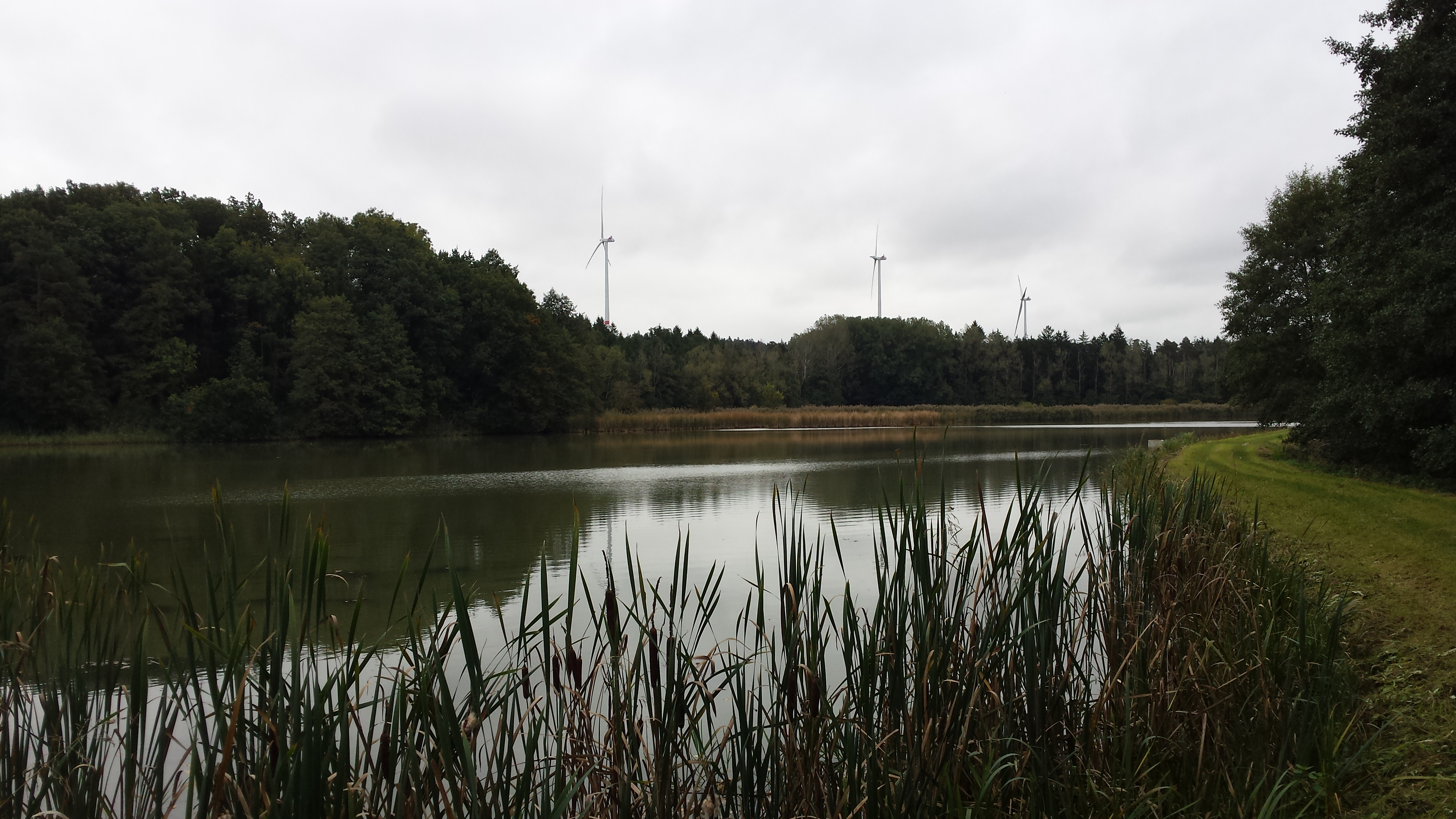 Pond near Wilburgstetten, Bavaria, Germany